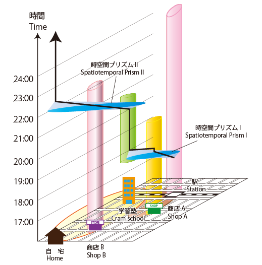 This is a sample to explain time geography.